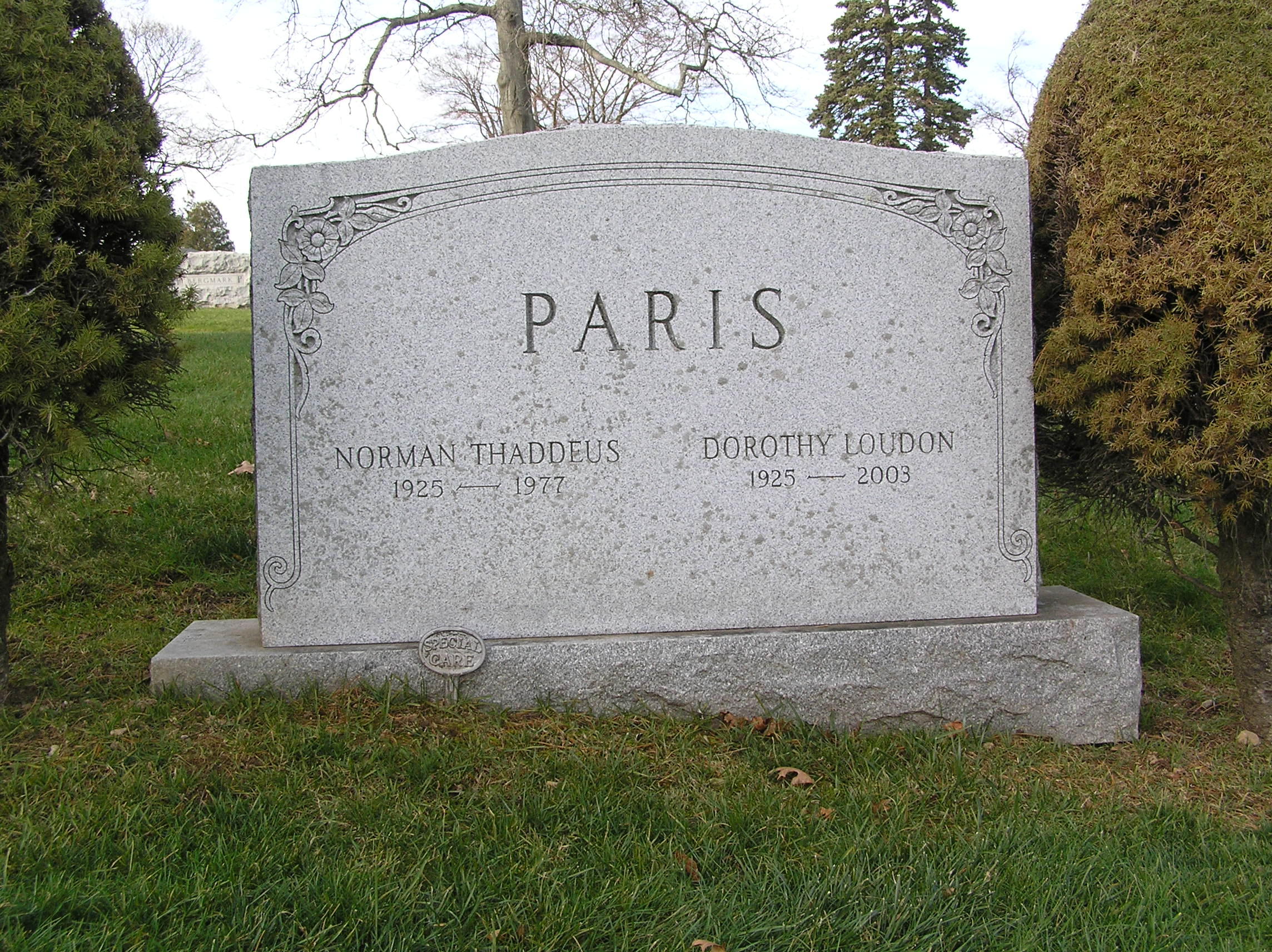 The final resting place of Dorothy Loudon in Kensico Cemetery, Valhalla, NY